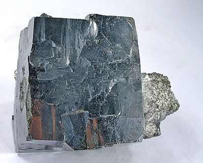 Galena Locality: Sweetwater Mine (Milliken Mine; Frank R. Milliken; Blair Creek; Ozark Lead Company Mine; Adair Creek; Logan Creek), Ellington, Viburnum Trend District, Reynolds County, Missouri, USA (Locality at ) Size: 6.9 x 5.4 x 4.2 cm. A big, nickel-bright, dramatic cube of galena from the tri-state district, with a bit of accenting matrix. The faces of this striking cube have interesting shallow offset subfaces, which you can see clearly in the pics. The matrix contact is on the back side, and the specimen has a fine display face. Ex. Feist Collection.